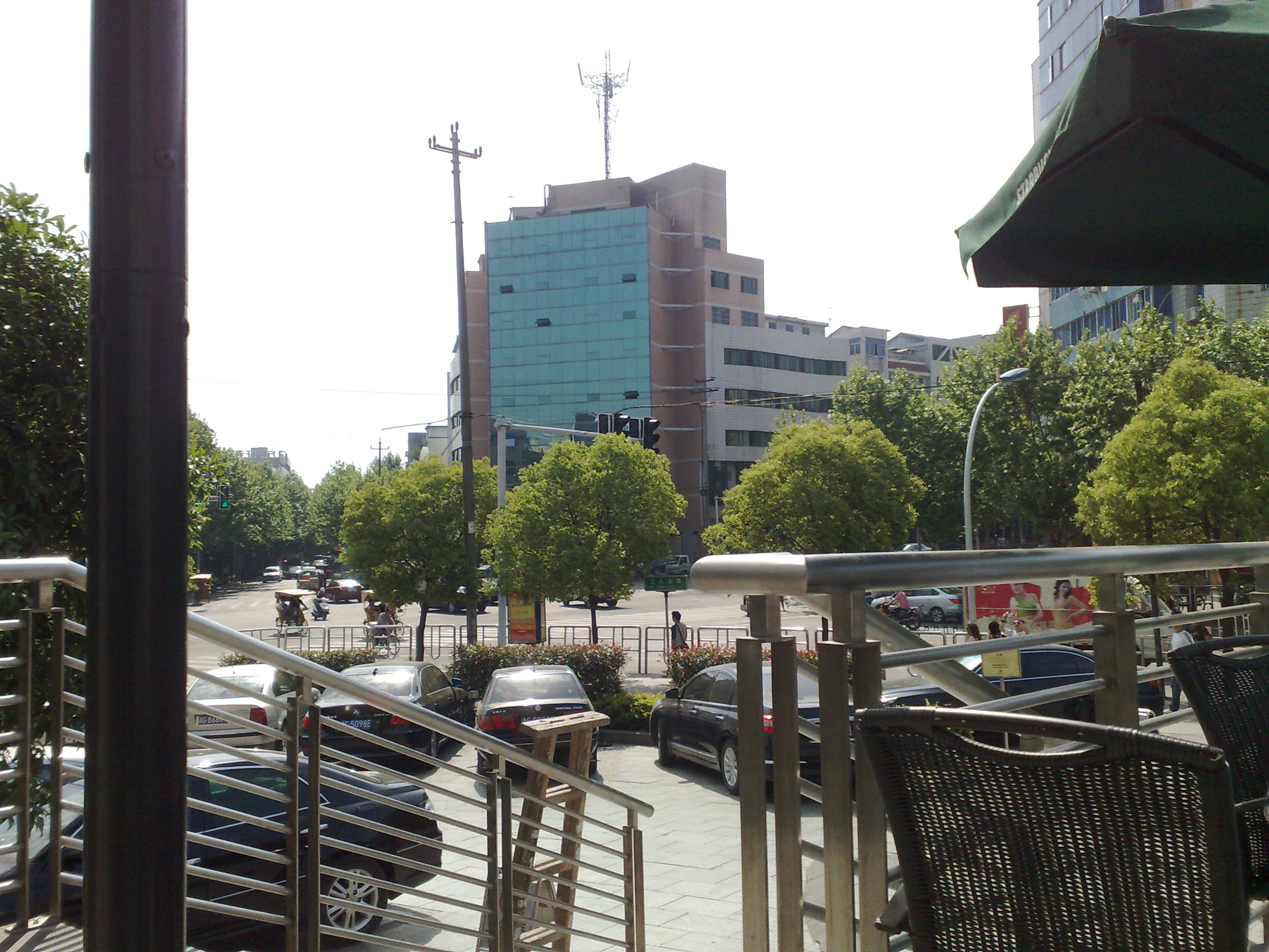 Yiwu City, Zhejiang, China. View from Starbucks at town